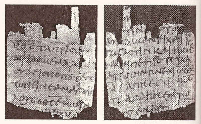 1 John 4.11-12-4.14-17